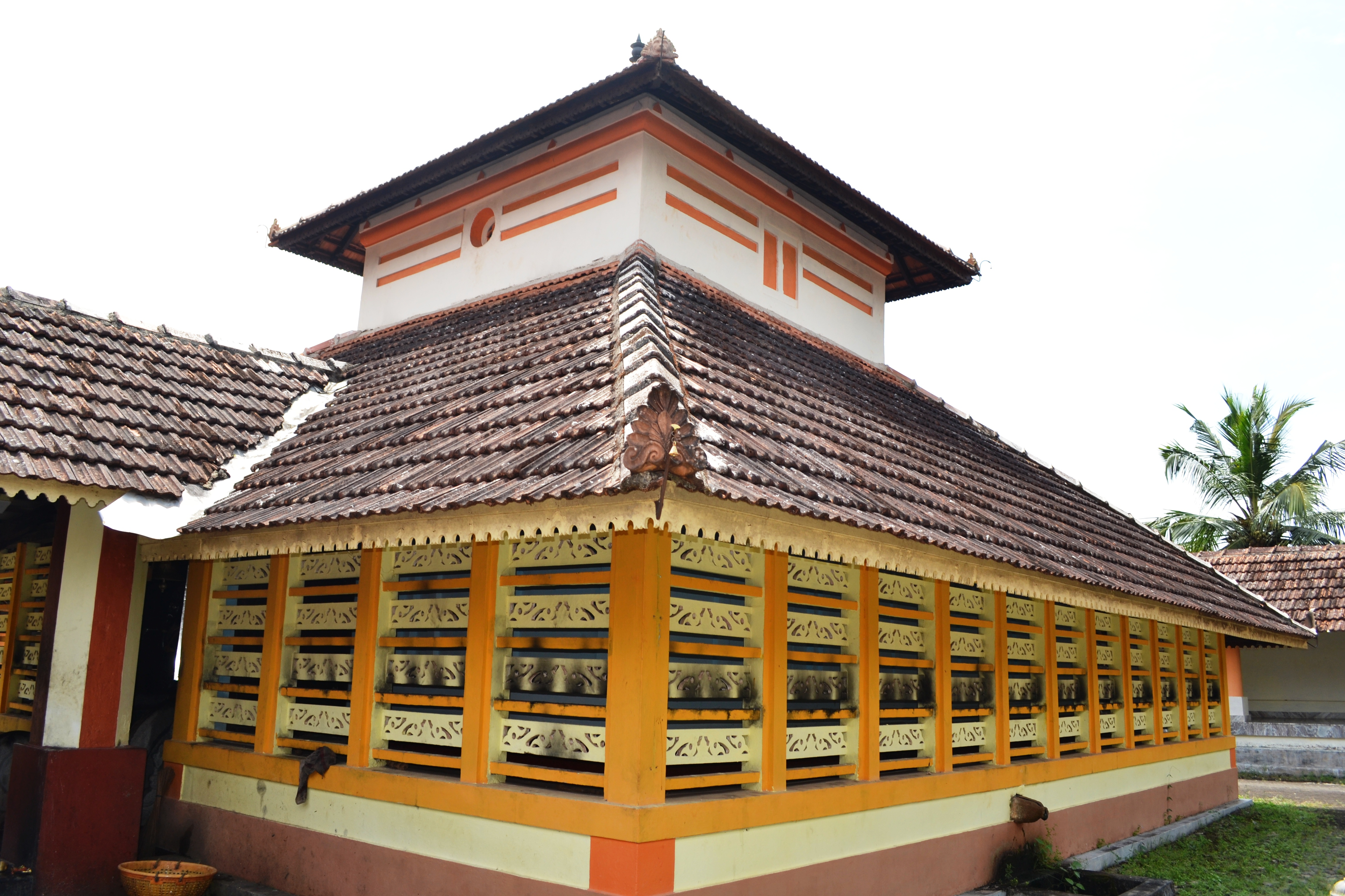 Main garba gudi of the temple